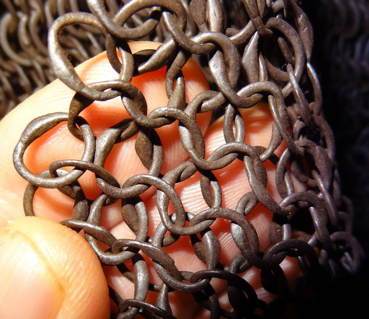 European riveted mail, close up view of the back of the links.